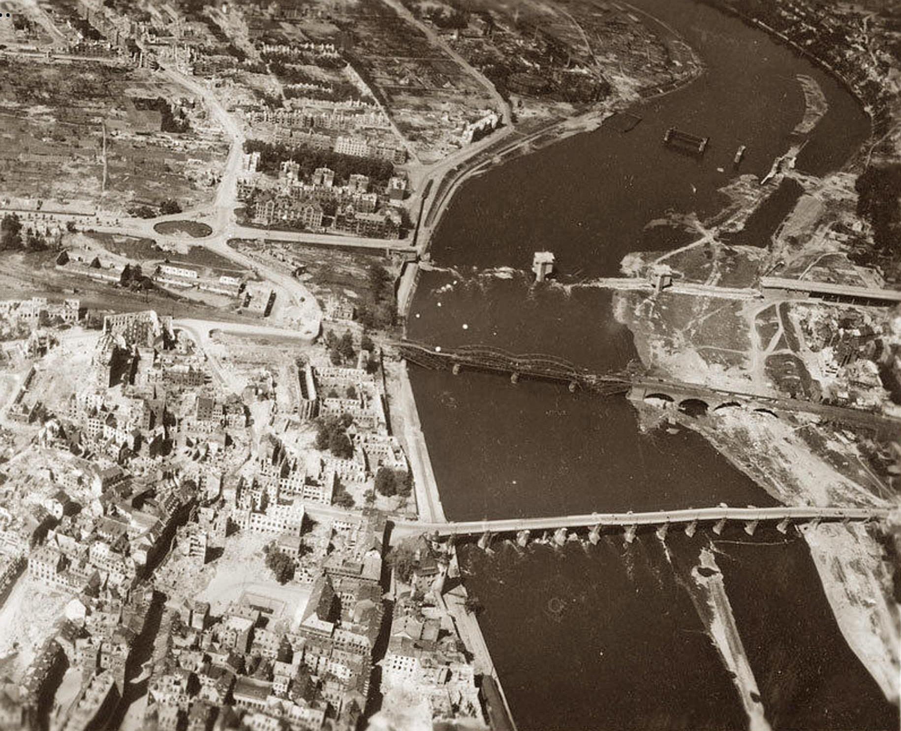 The destroyed city of Koblenz after World War II 1945